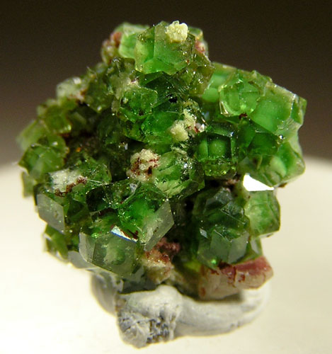 Grossular Locality: Jeffrey mine (Jeffrey quarry; Johns-Manville mine), Asbestos, Les Sources RCM, Estrie, Québec, Canada (Locality at ) A small specimen, yes, but it is a very rare example (no longer available of course) of the little intense green, gemmy grossulars occasionally discovered at the Jeffrey 1.9 x 1.2 x 1.1 cm